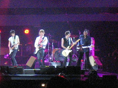 [Photos taken by Shahid-G]